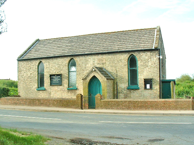 Temple Hirst Methodist Chapel.